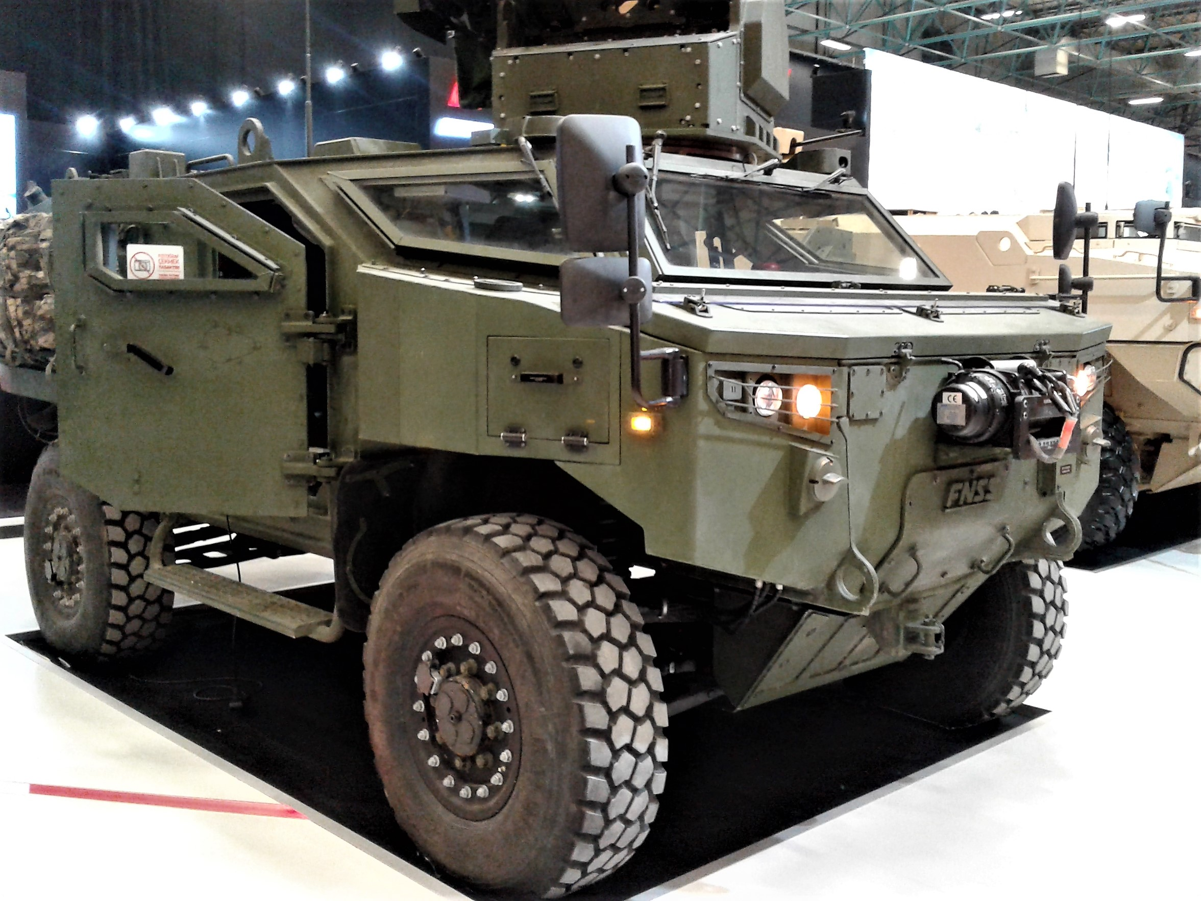 Armored wheeledaAnti tank vehicle Pars 4x4 of of FNSS at the IDEF 2019 in Istanbul, Turkey.